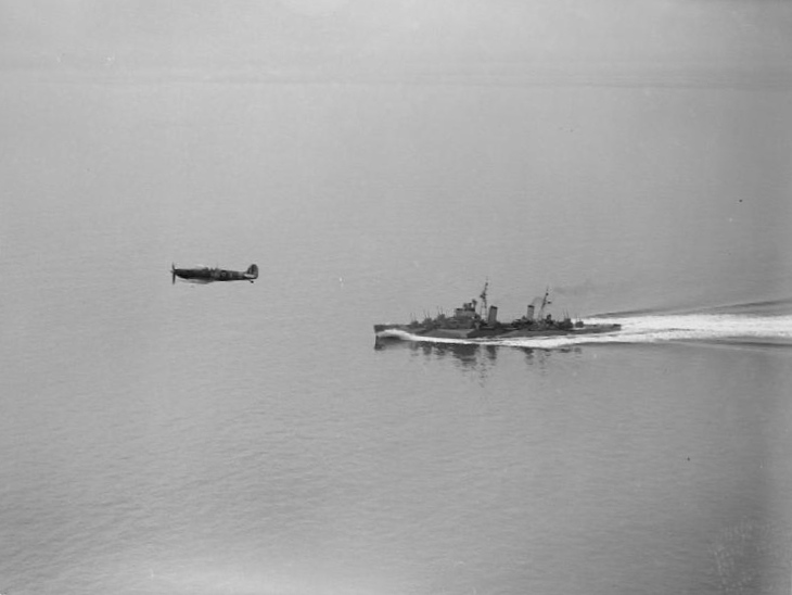 British light cruiser HMS ARGONAUT steaming at high speed escorted by a Supermarine Spitfire.